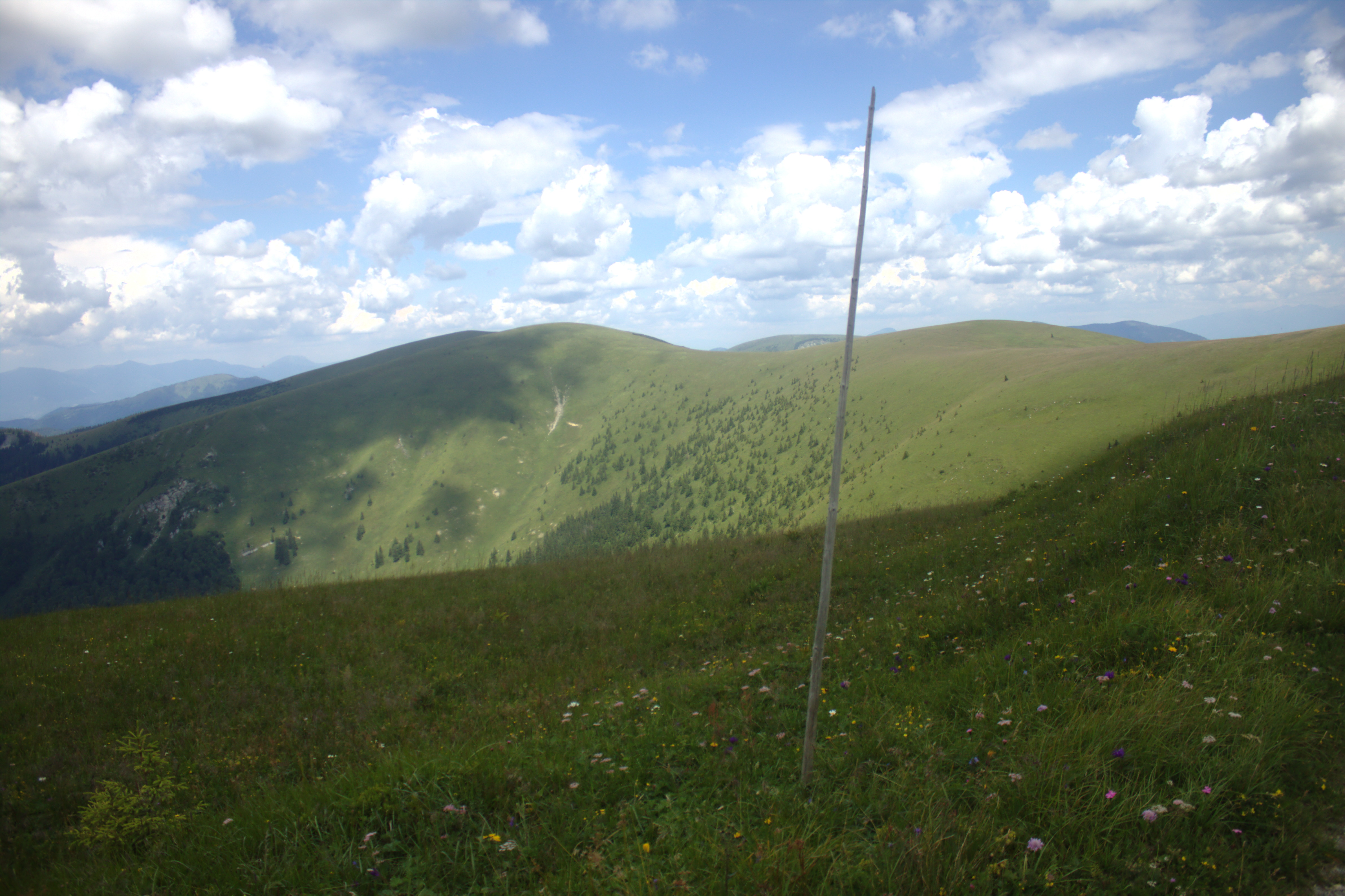 Mountain ranges near Krížna Hill, Veľká Fatra, SK